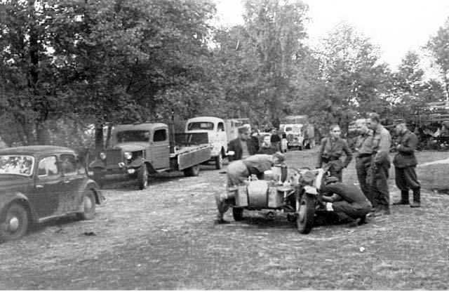 Kampinos Regiment during Warsaw Uprising: Car fleet of Kampinos Regiment in mid September 1944. From the left: 1) Józef Zieleziński "Lewozwis" (leaning over the motorcycle), 2) Rosjanin Andriej (behind "Lewozwis"), 3) German prisoner-mechanic (fixing the motorcycle).